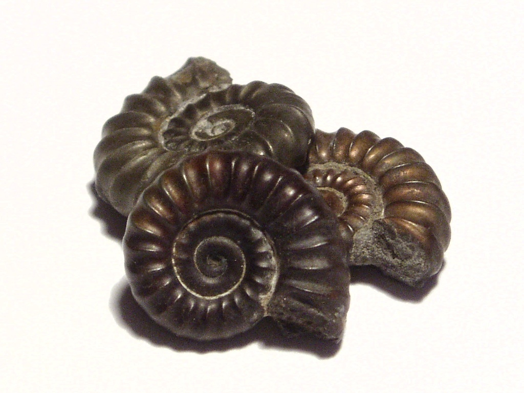 Three small ammonite fossils, each approximately 1.5cm across.